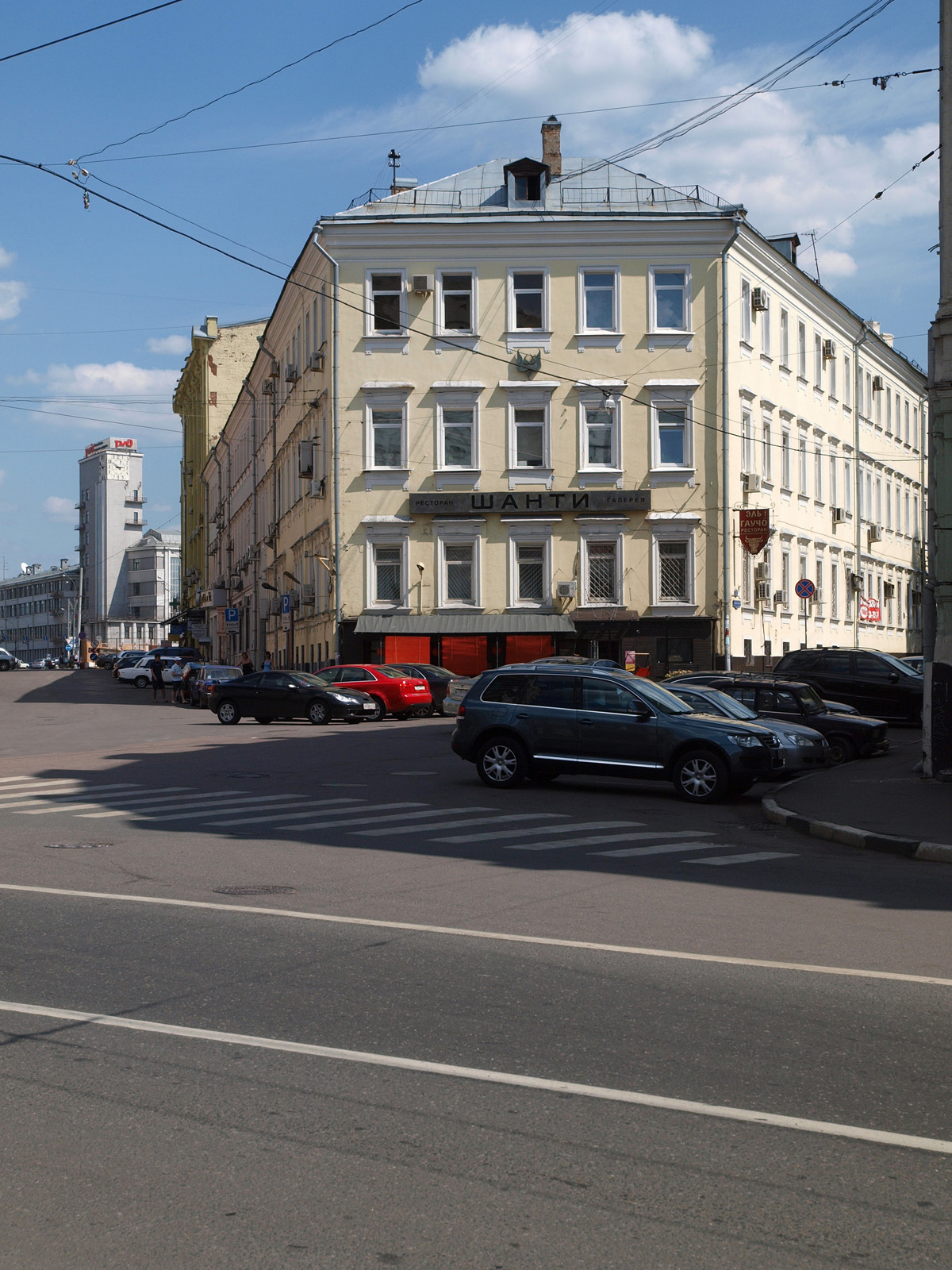 Bolshoy Kozlovsky Lane, Moscow - corner of Myastnitskaya Street and Myasnitsky Lane